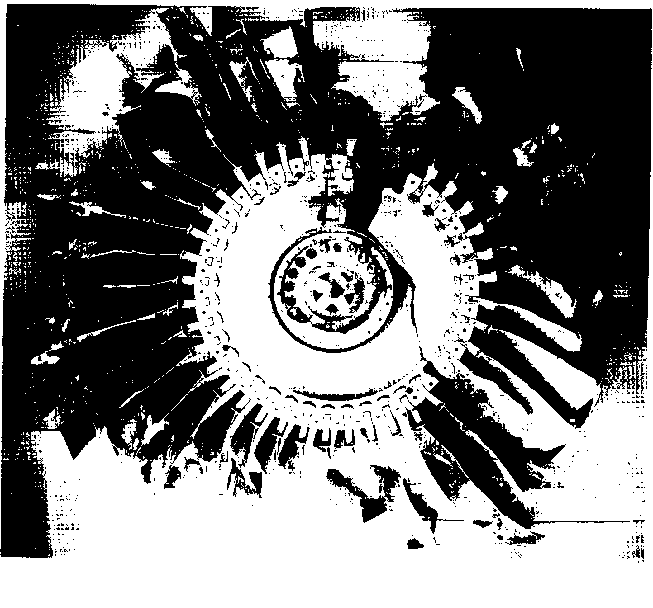 The recovered fan disk from UAL 232, showing the in-flight fracture which led to the engine failure and eventual crash landing